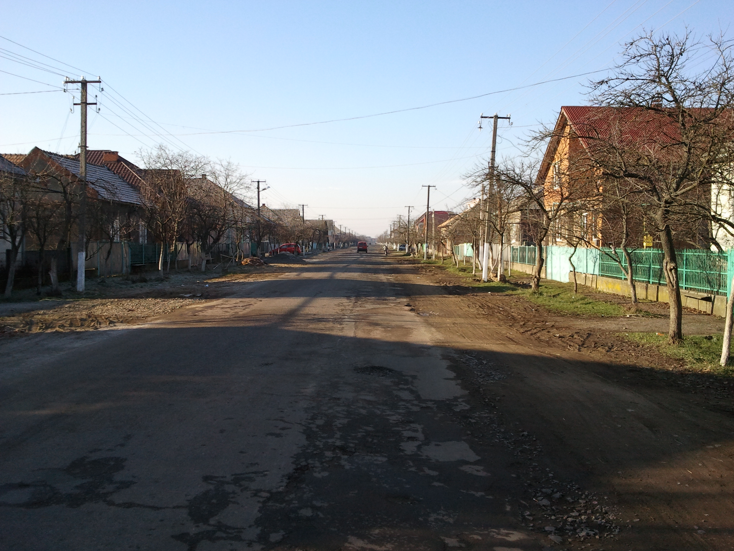 Village Veliky Lučky. Zakarpatska oblast, Ukraine.